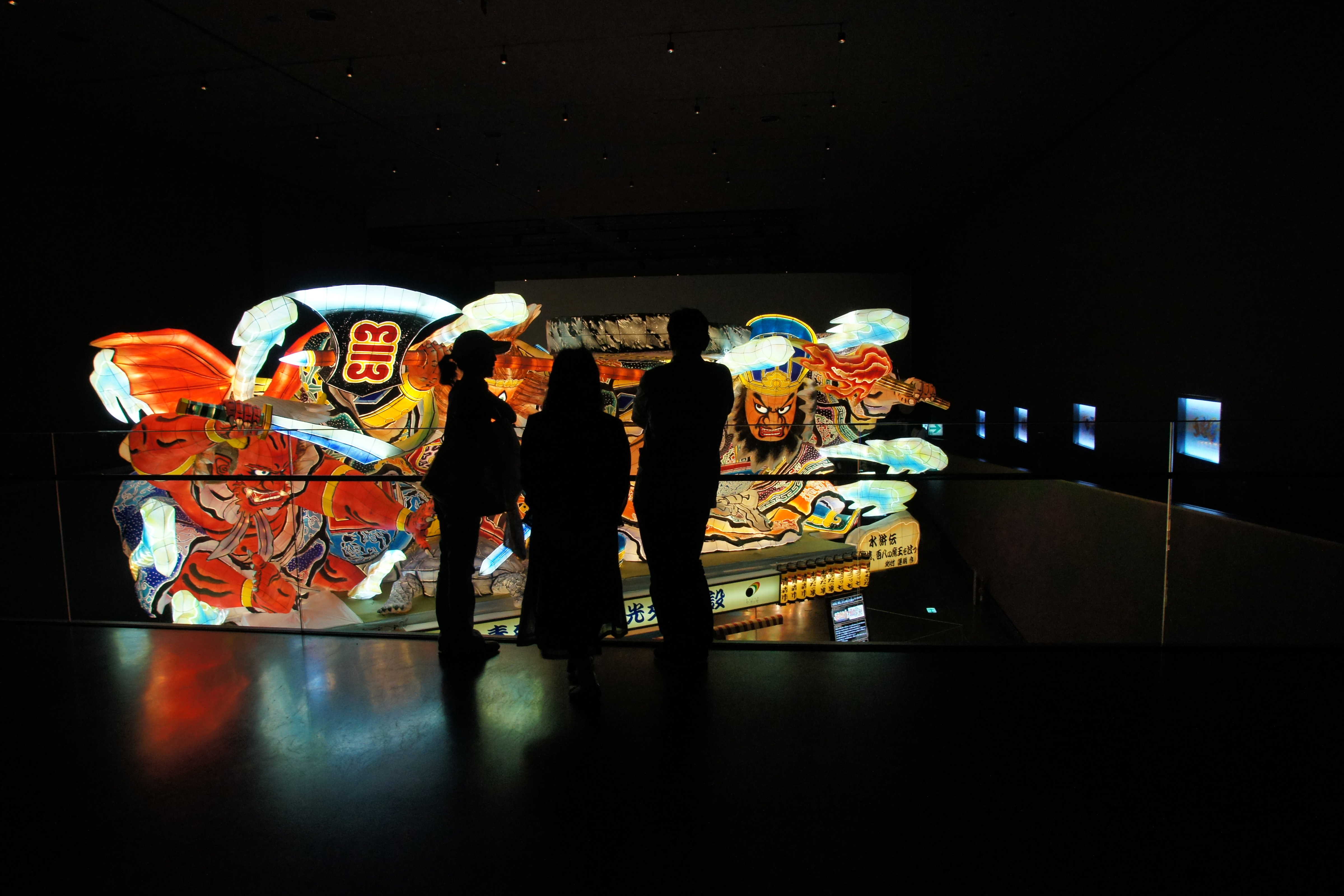 Nebuta house Warasse in Aomori, Aomori prefecture, Japan